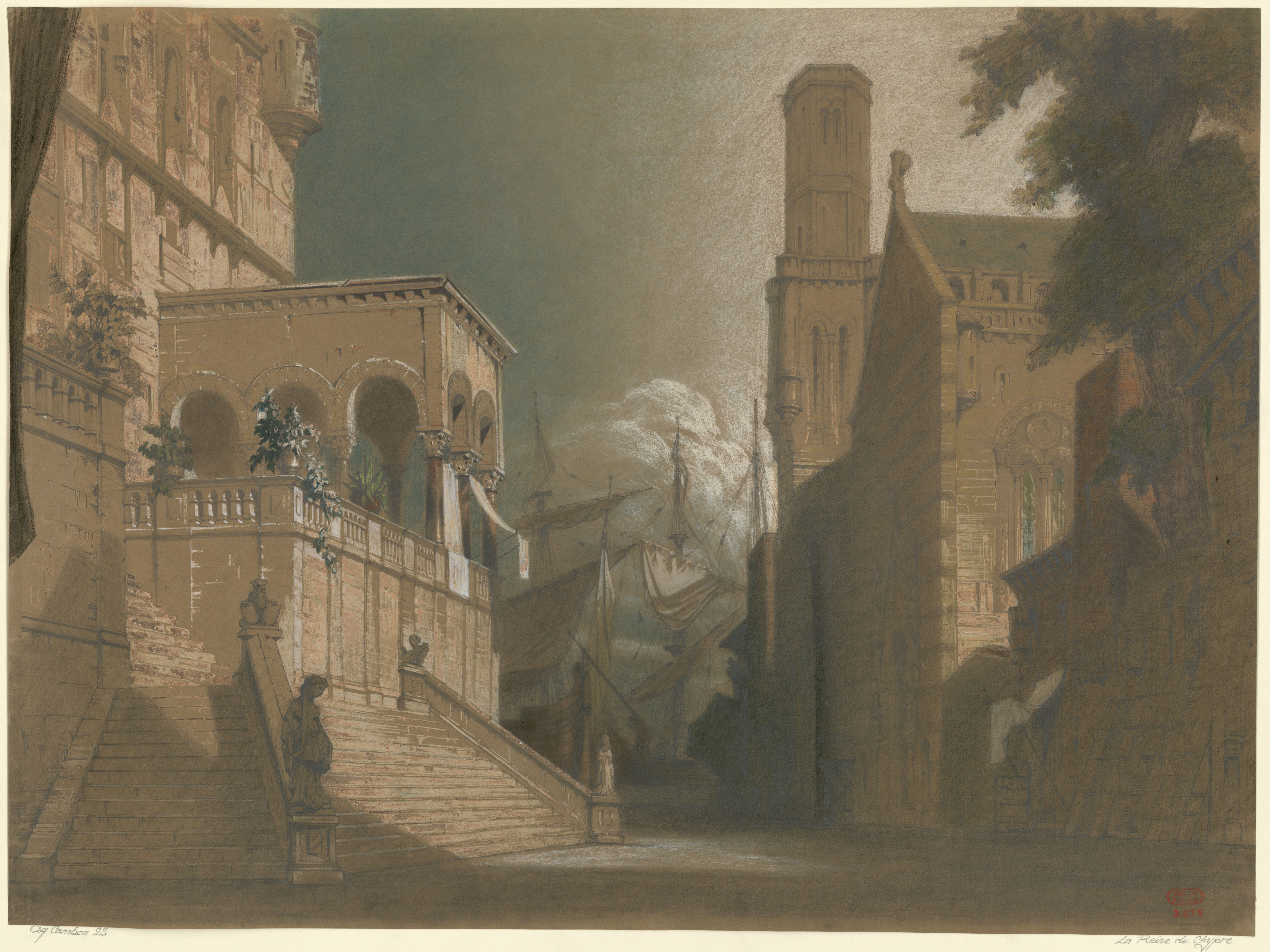 Set design for Act IV of Fromental Halévy's grand opera La reine de Chypre, for the 22 December 1841 première production at the Théâtre de l'Opéra-Le Peletier. Pastel, pencil, and gouache on beige paper, 451 x 615 mm.